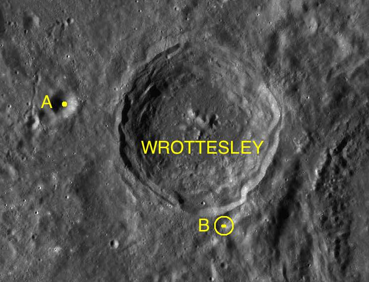 Part of the chart LAC-98 used for the presentation